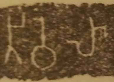 Vel (No. 123)